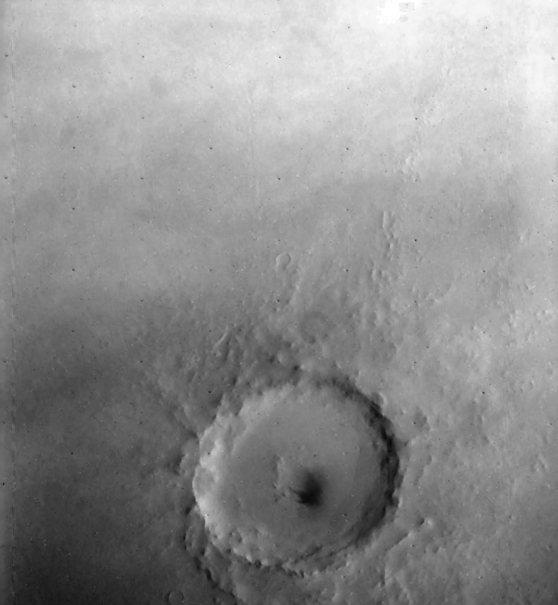 Mie crater on Mars. Viking Orbiter 1 image from camera A (844A06). Red filter was used for this image. Image was despeckled. Resolution is about 249 m/pixel. North is at top. Emission Angle: 24.9 Incidence Angle: 72.8 Latitude: 49.8 Longitude: 139.6 Phase Angle: 59.7